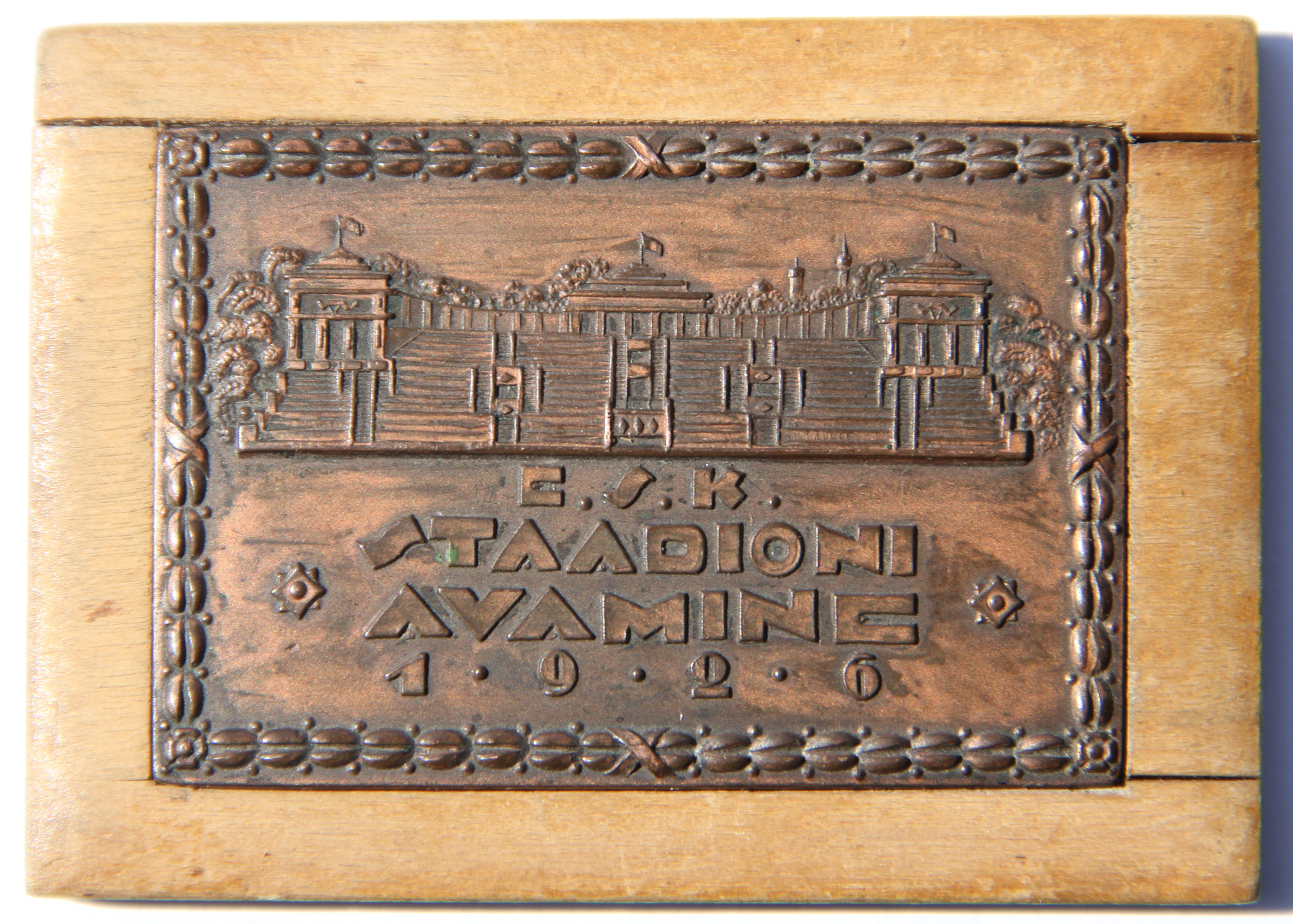 The plaquette made for the festive opening of the Estonian Central Sports Union’s Kadriorg Stadium in Tallinn, Estonia, on 13th of June 1926. Author: Roman Tavast. Plaguette is from Juozas Klimas personal archives.